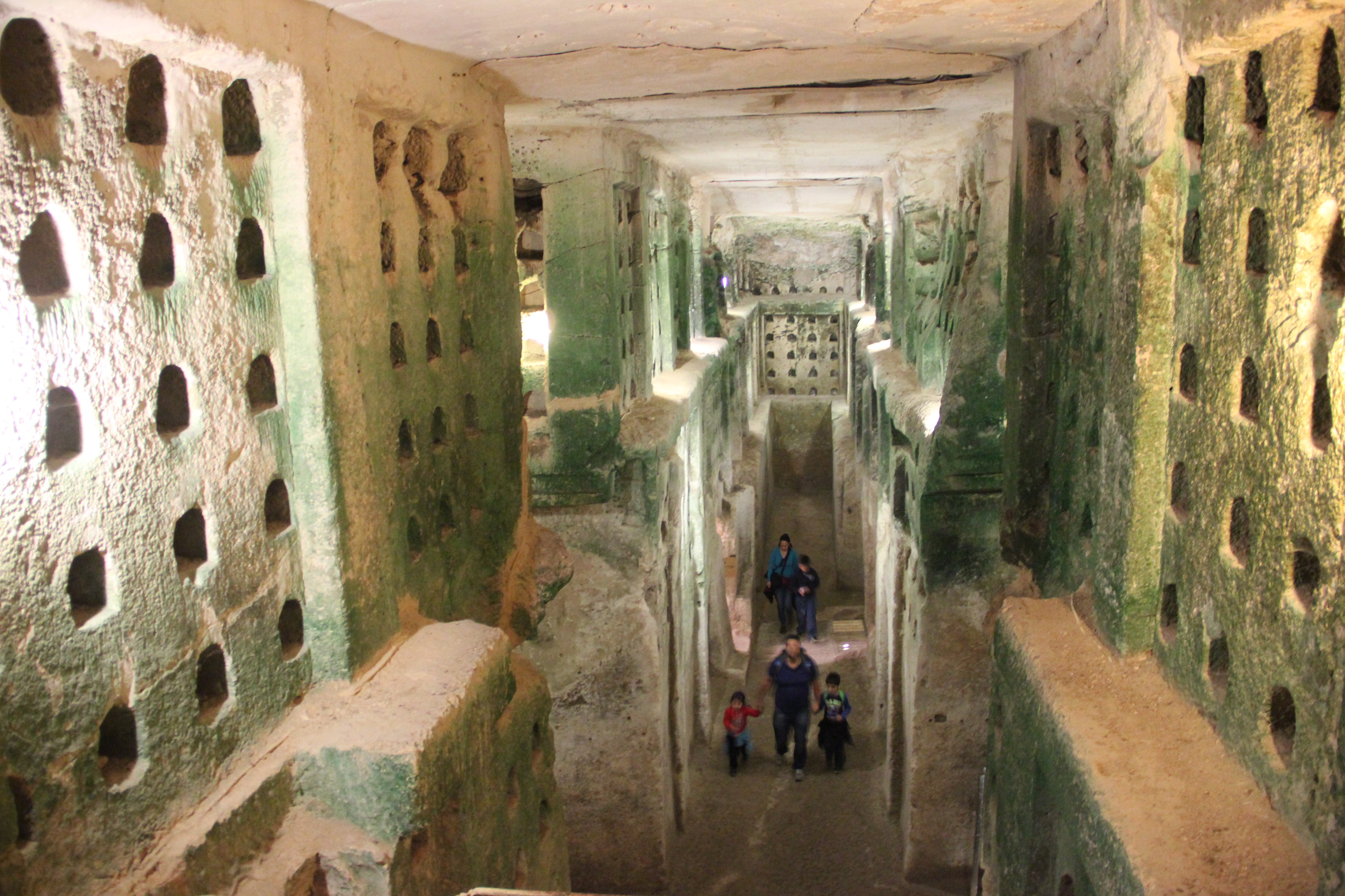 Beit Govrin